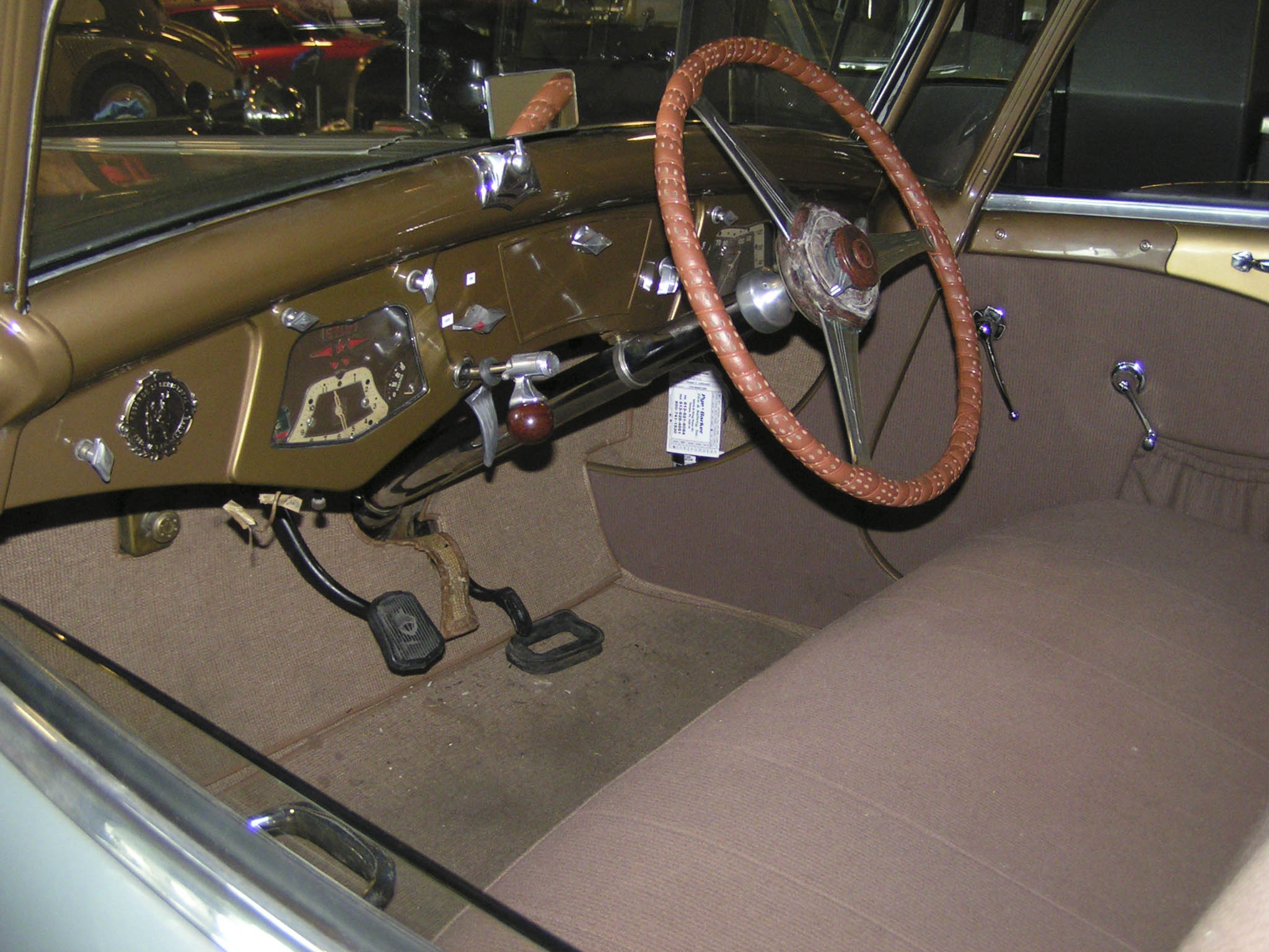 1938 Panhard Dynamic interior with center-post steering wheel, allowing a passenger on each side of the driver.1938 Panhard Dynamic Interior